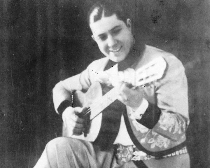 Argentine singer legend Carlos Gardel, playing his guitar.